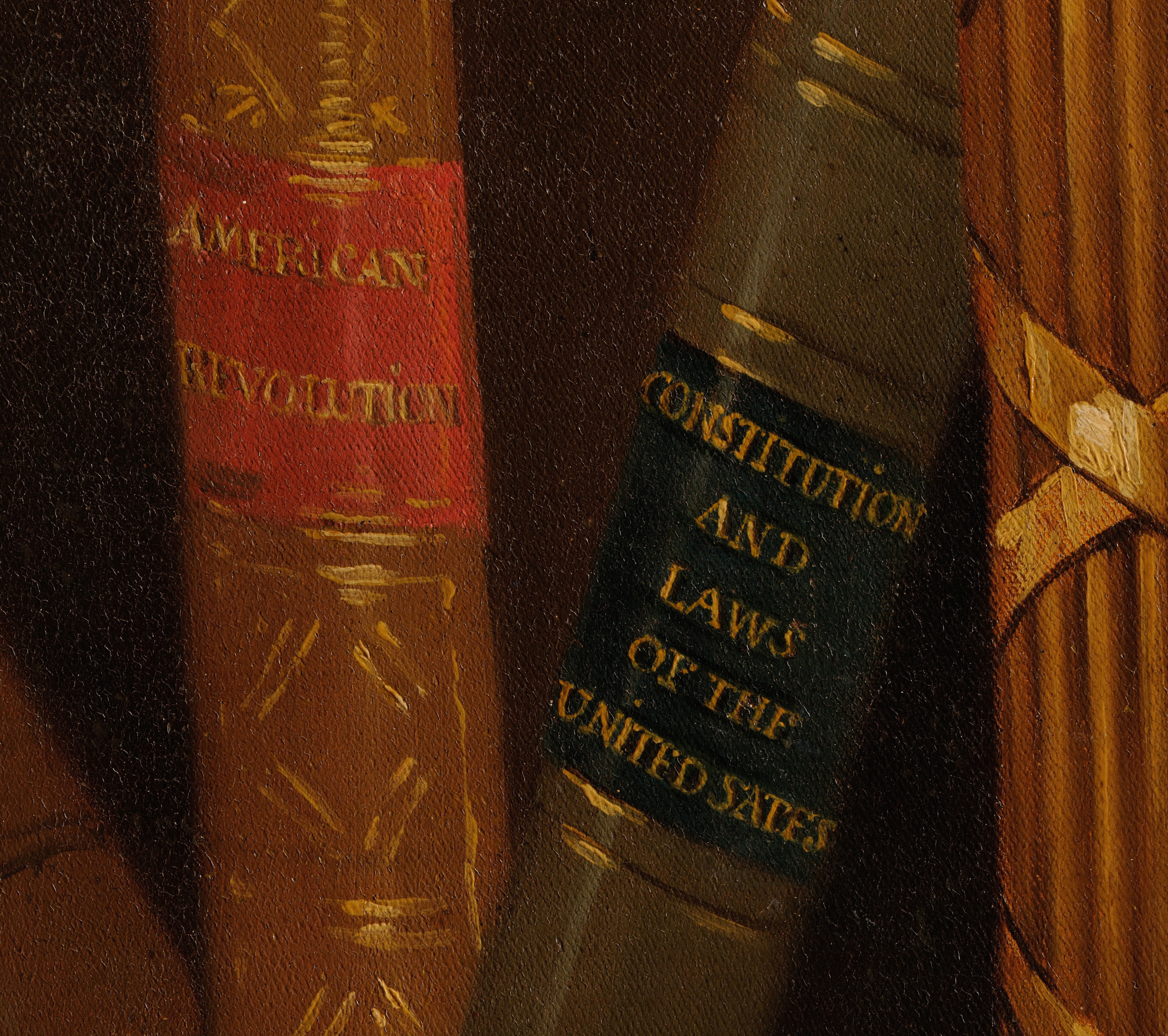 A detail of the copy of Gilbert Stuart's famous Lansdowne portrait of George Washington hanging in the White House. The word "States" is intentionally misspelled as "Sates" in bottom-right to indicate the copy. The original is in the National Portrait Gallery.